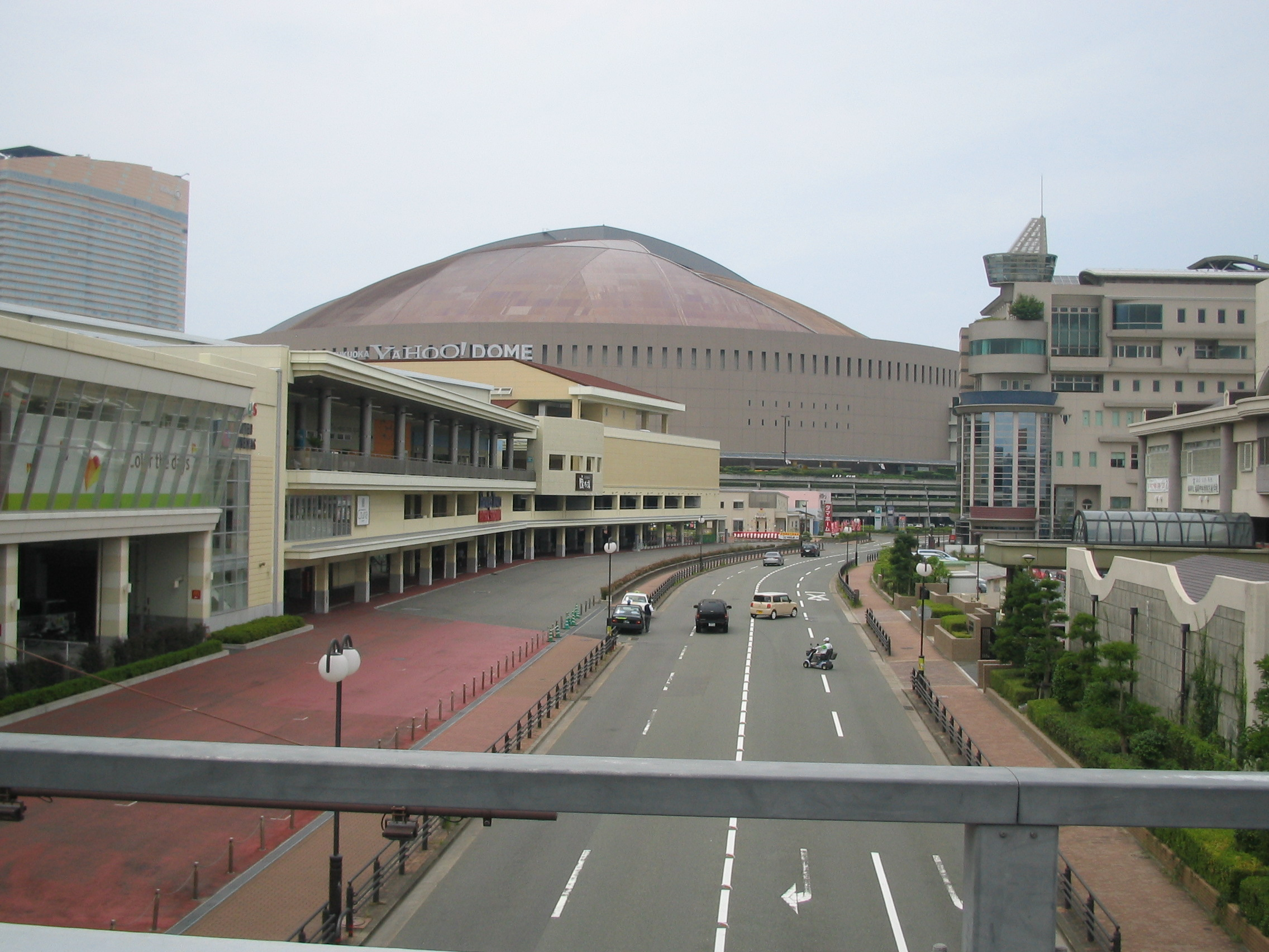 Fukuoka Yahoo!Japan Dome. Fukuoka-city,Chuo-ward. Photo by Tanuki. 2010-07-27.